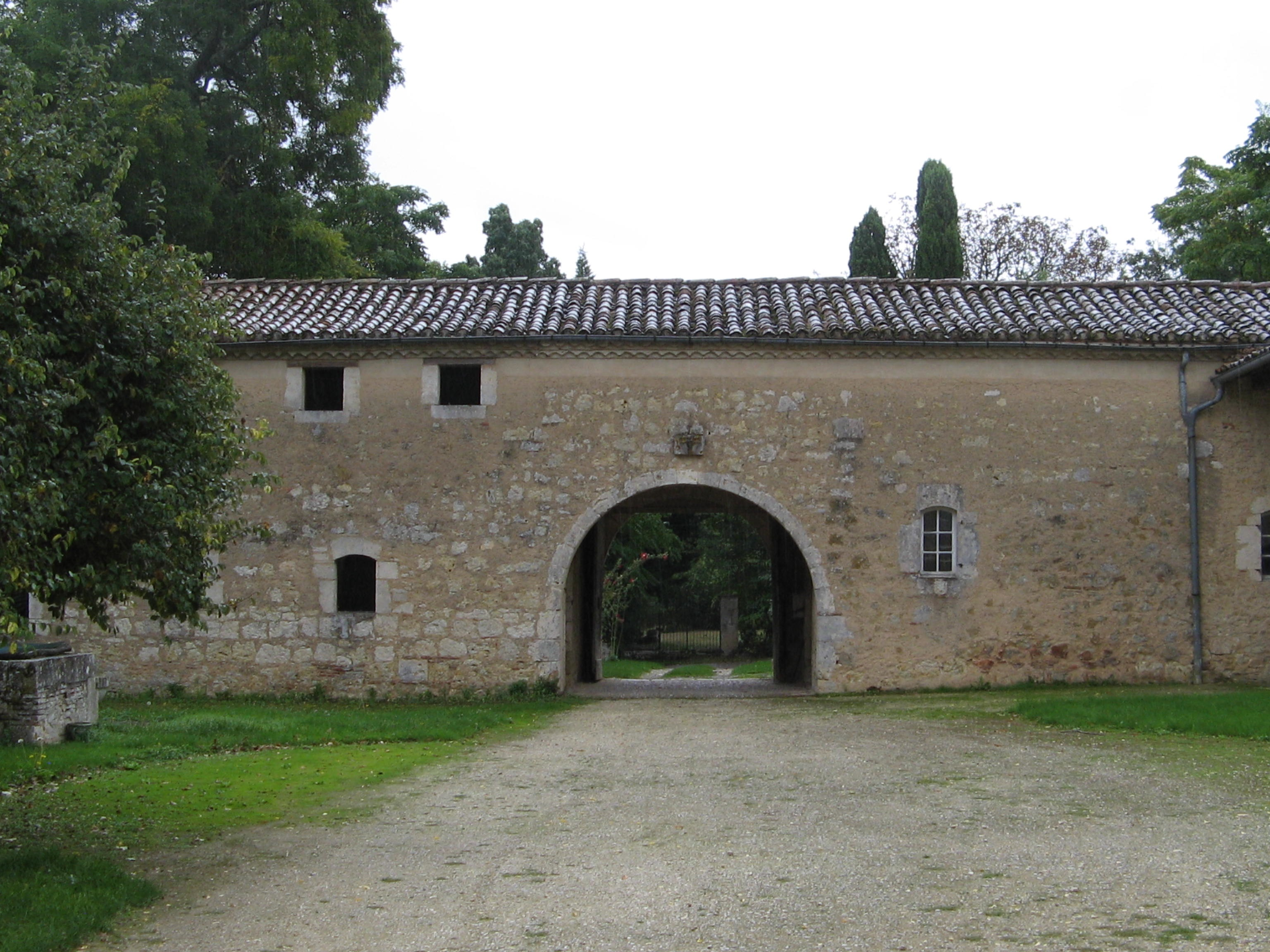 Château de Lauret, Sainte-Gemme, Gers - main entrance building .